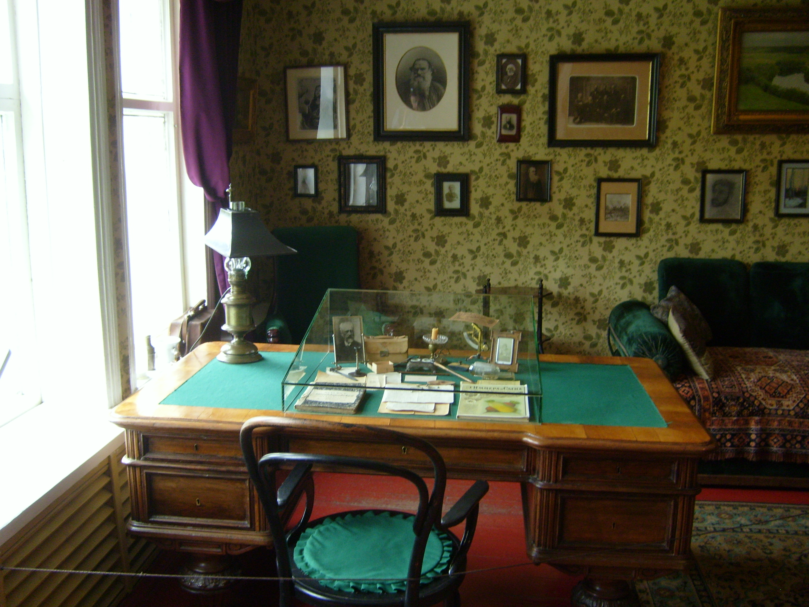 Desk of Anton Chekhov at Melikhovo estate museum